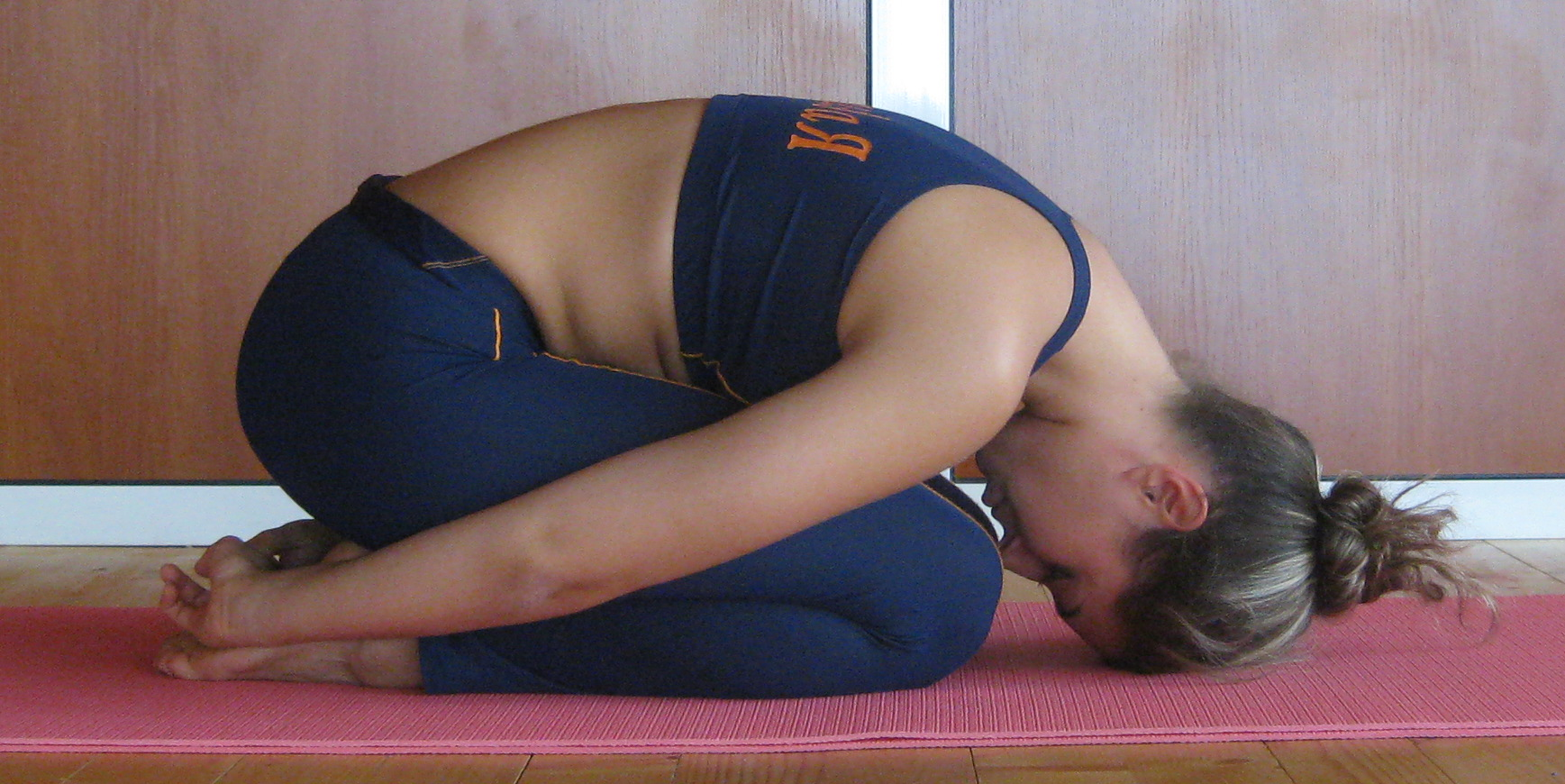 Child's Pose (relaxation)